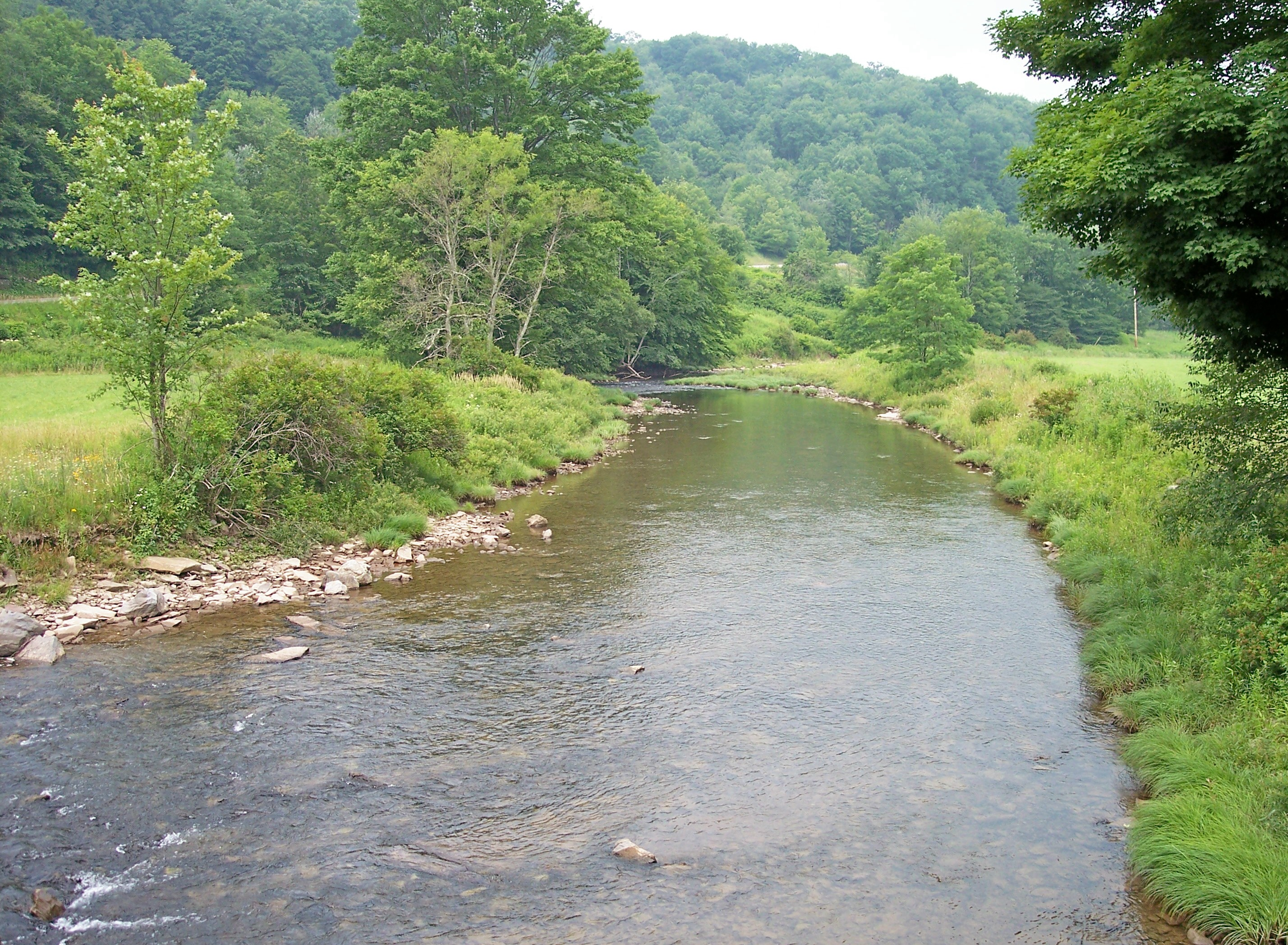 The Glady Fork as viewed from County Road 5/18 (off U.S. Route 33) in Randolph County, West Virginia